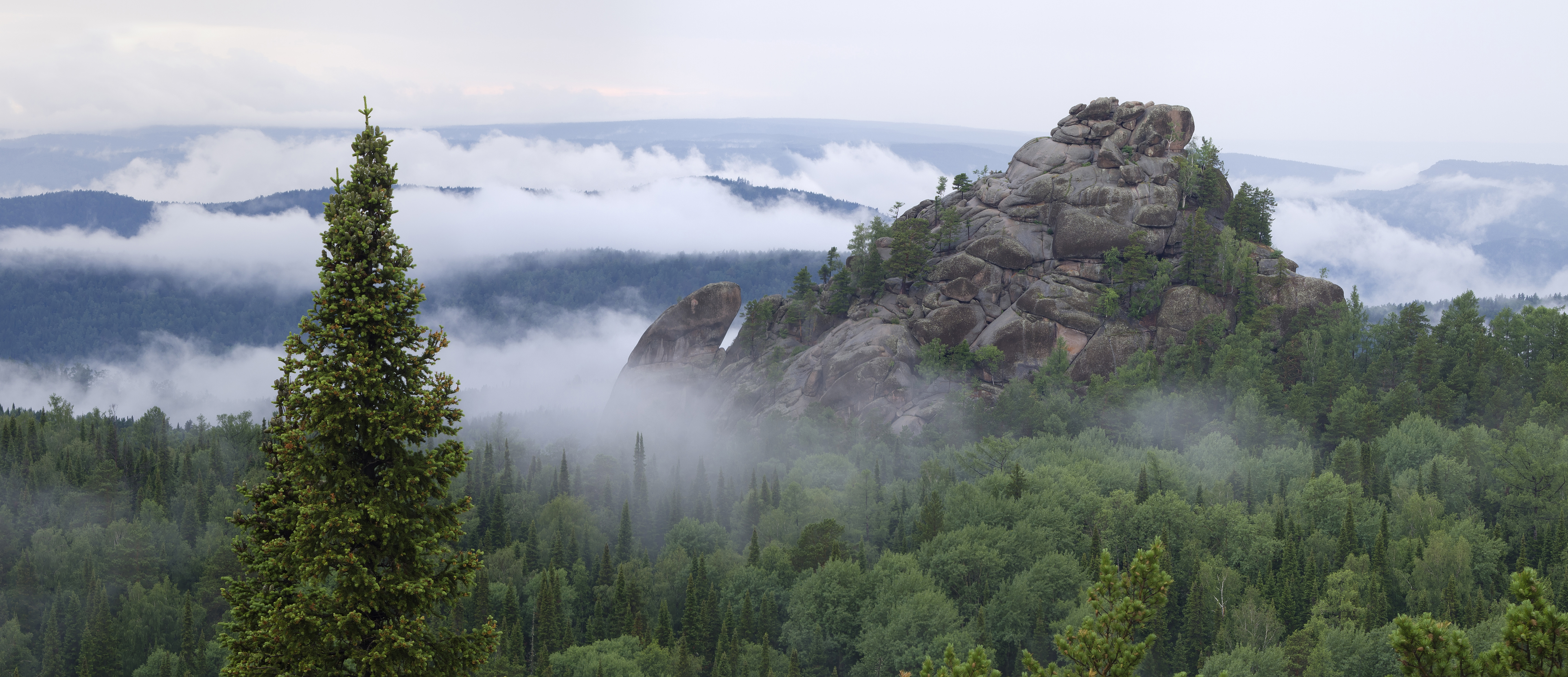 Stolby National Nature Reserve, Krasnoyarski Krai, Russian Federation.